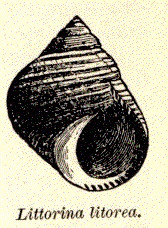 Littorina litorea Subject: Littorina Tag: Mollusks